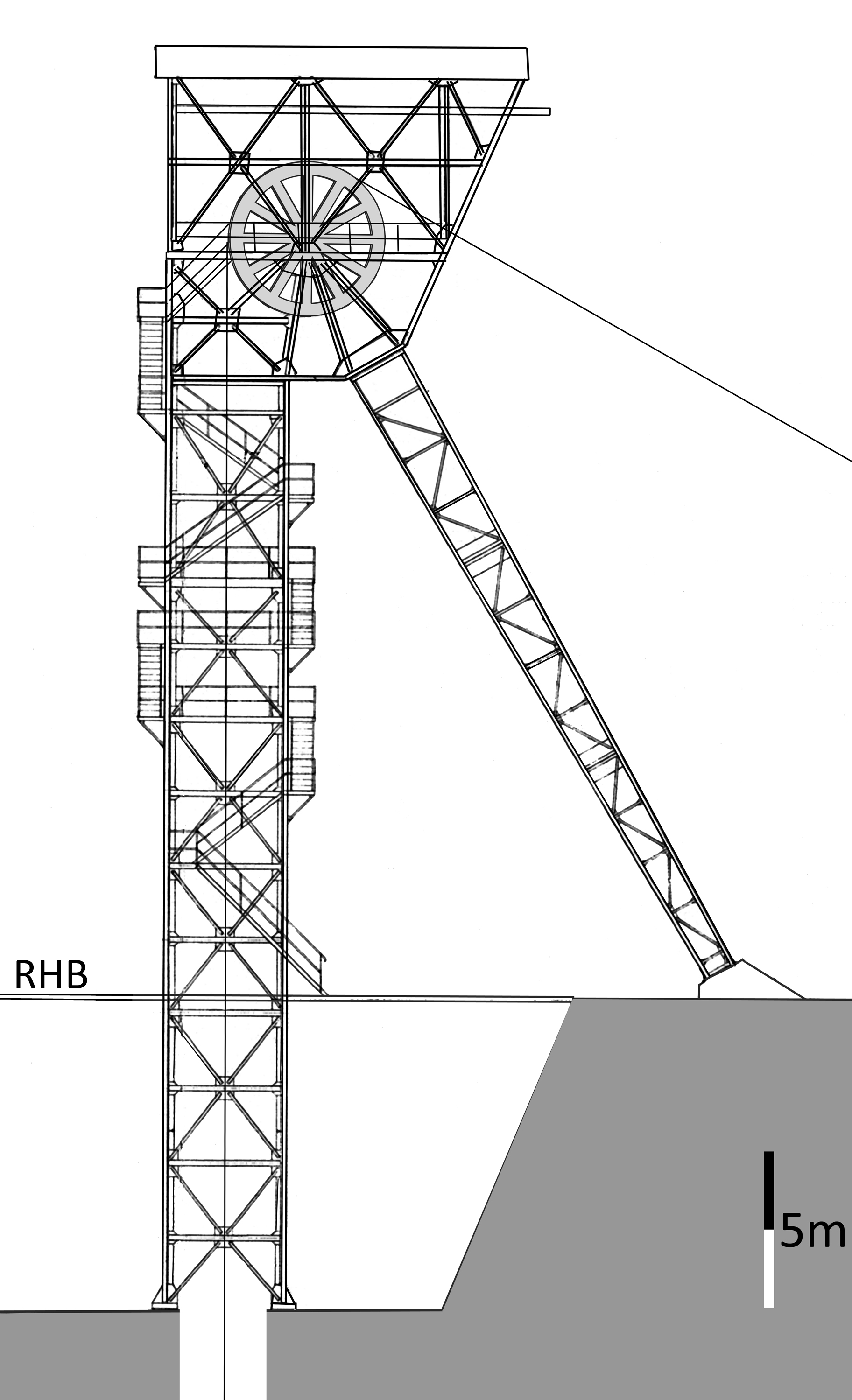 Headframe Füsseberg mine 1959. Height headframe 39,6m. Joined mine Füsseberg - Friedrich Wilhelm. RHB: pit bank.